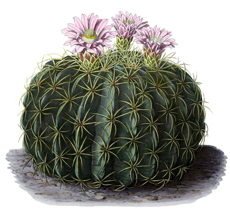 Ferocactus macrodiscus